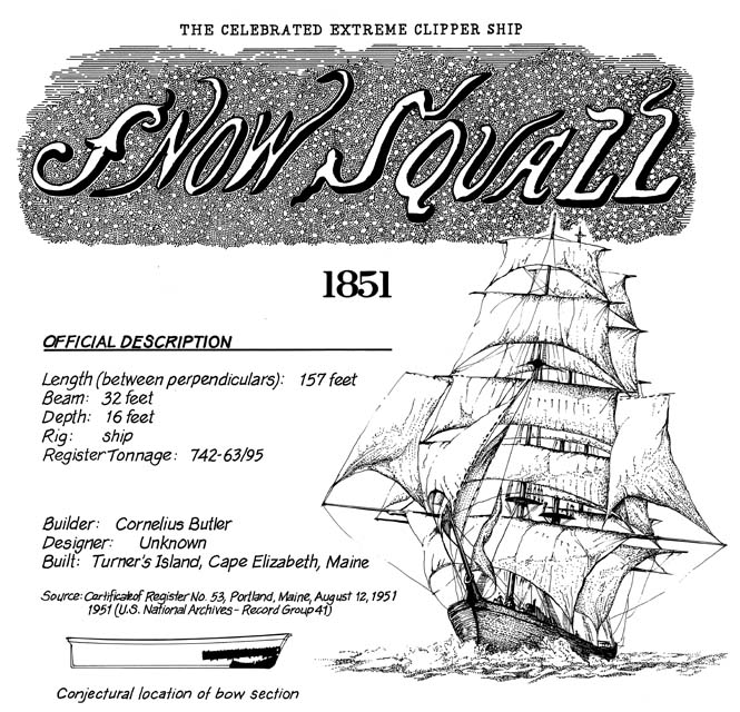 SNOW SQUALL is an example of the hundreds of American-built clipper ships which made record-setting voyages carrying goods and passengers to and from Gold Rush-era California, Australia and the Far East. A clipper was very narrow in proportion to its length, which a sharp hollow bow; it was square-rigged, typically with an enormous spread of canvas. Vessels of this type developed in the 1840s, designed fro speed (rather than large cargo capacity) in a boom time of high freight rates. By the late 1850s, economic conditions favored slower ships of greater cargo capacity and smaller crews, so clipper construction was abandoned. The romance of the clipper ship era remains in the public mind, yet little primary evidence survives to disclose details regarding American clipper design and construction practices. SNOW SQUALL's bow section has survived and thus represents a unique resource for both scholars and the general public.